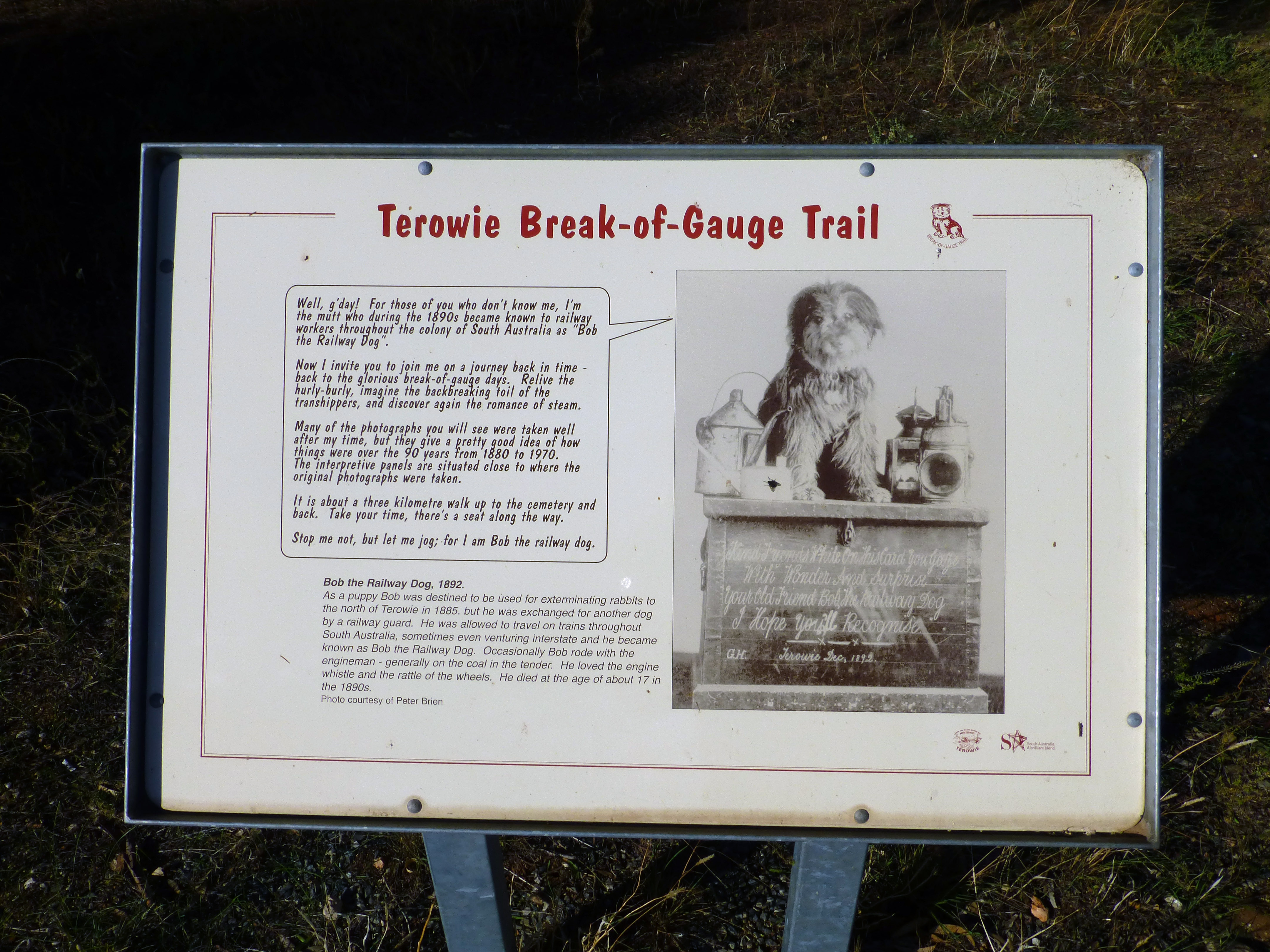 Sample of the Terowie Bob tourist information boards located in and around Terowie South Australia